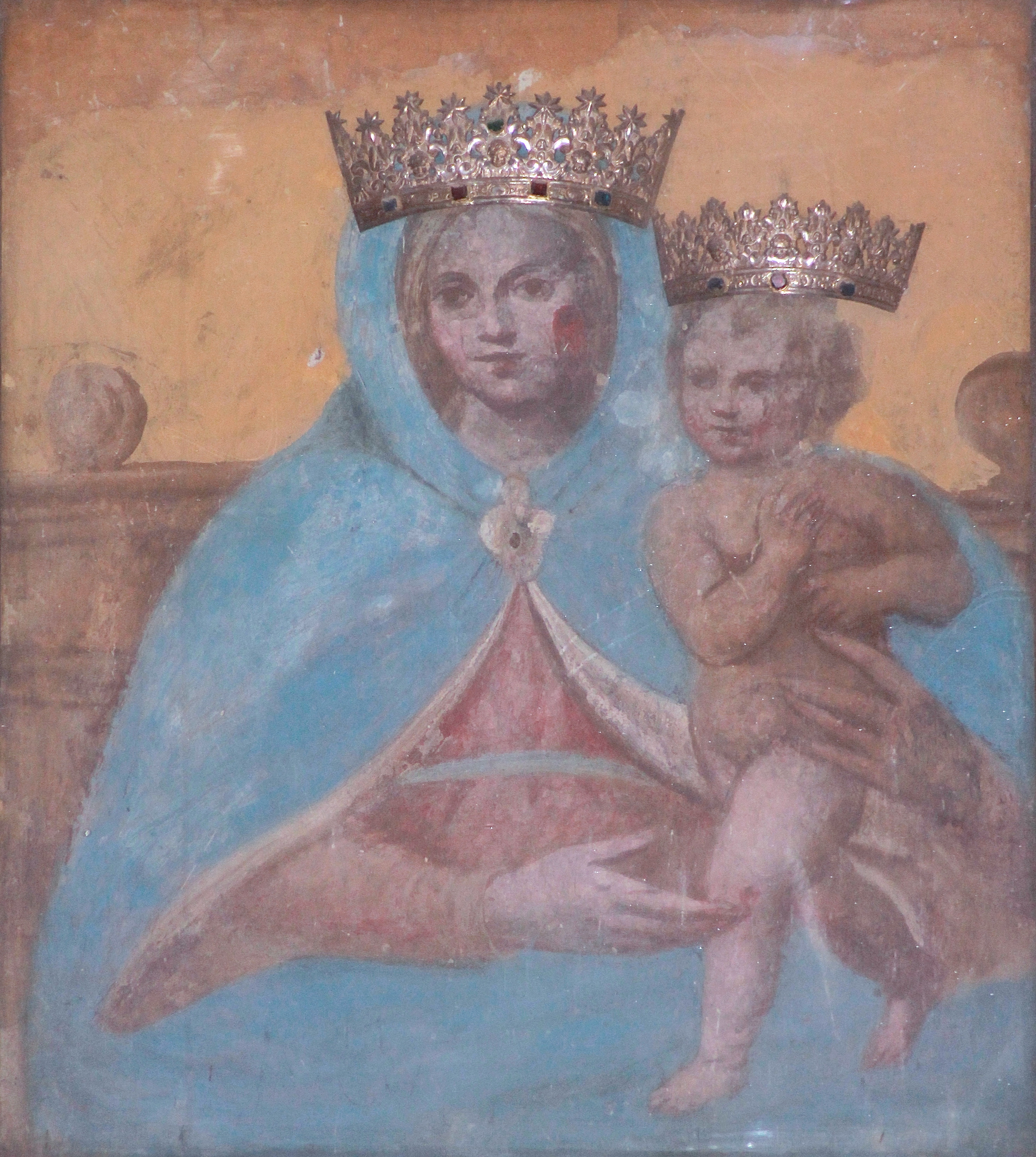 Madonna dell'Arco, Baronissi